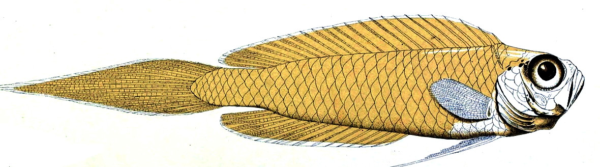 Owstonia sibogae